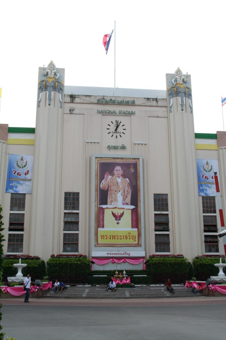 Front of Suphachalasai Stadium